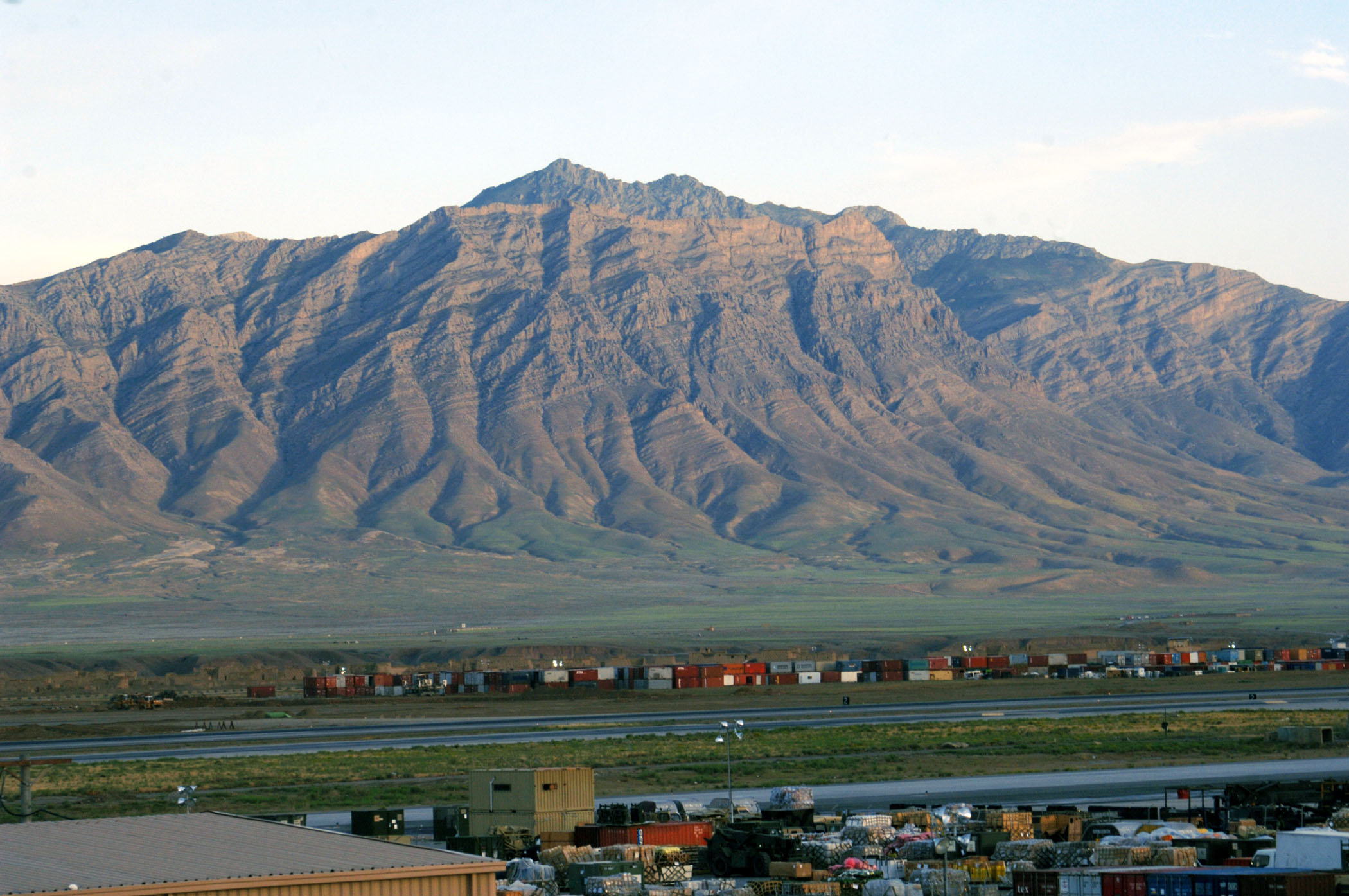 A view of Bagram Airfield, Afghanistan from the Air Traffic Control Tower's catwalk after a recent rainstorm.